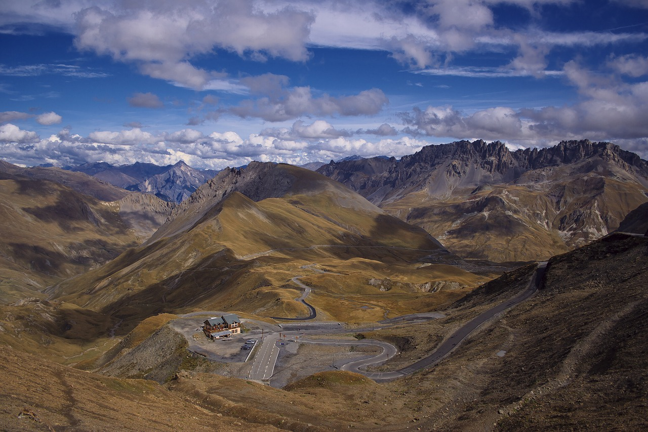 Col du Galibier (el. 2645 m.) is a mountain pass in the southern region of the French Dauphiné Alps near Grenoble. It is often the highest point of the Tour de France.